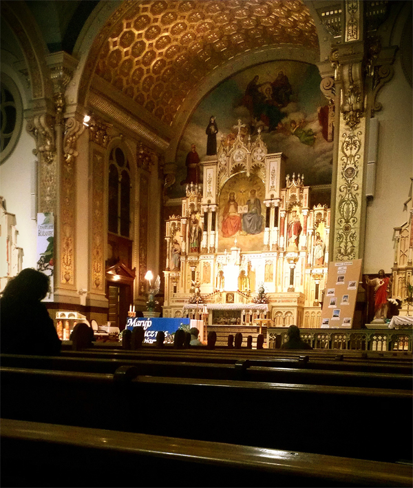 Photo taken on Monday,10/15/2012, at Holy Trinity Church in Chicago, IL, USA.